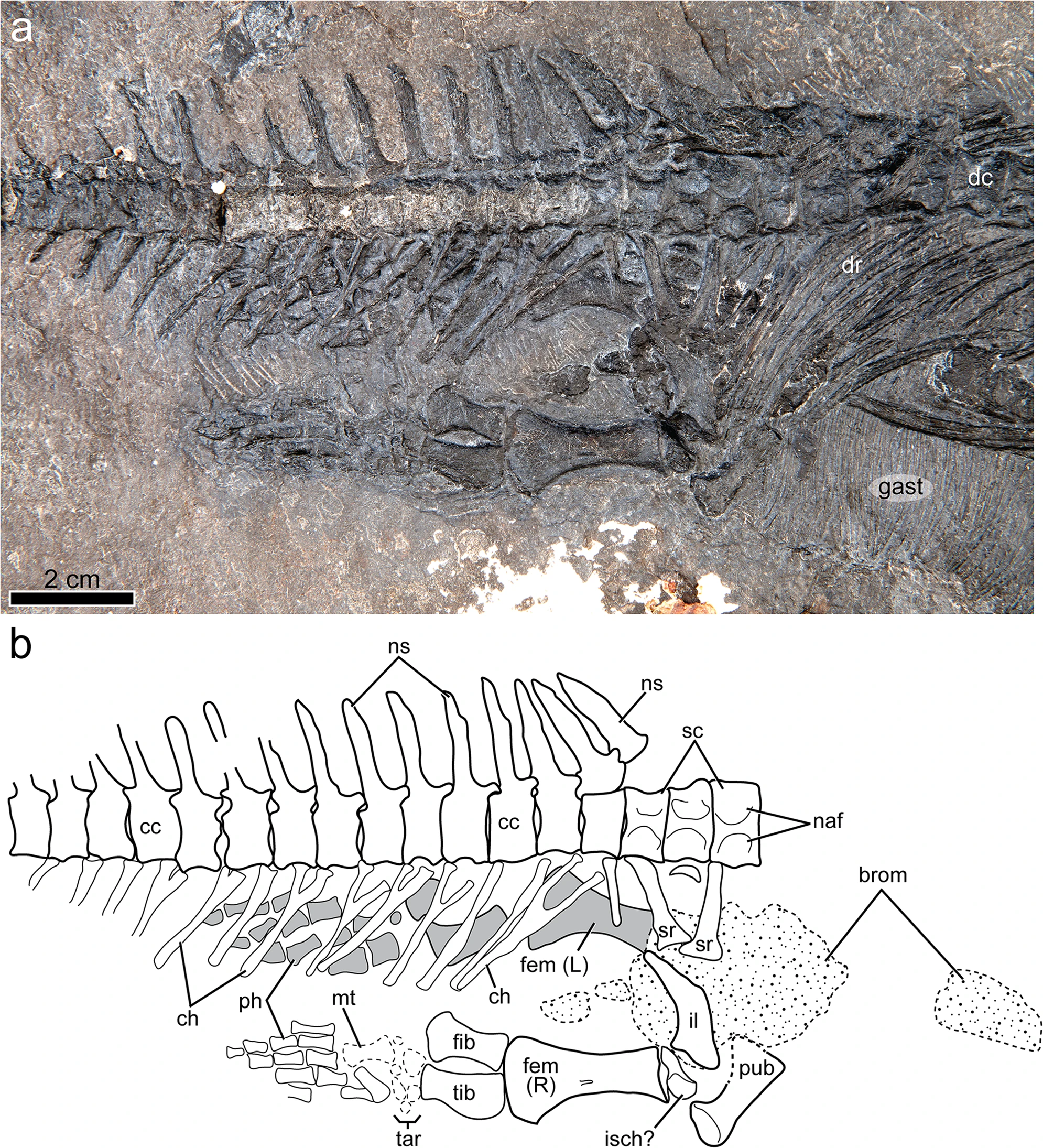 Anterior caudal region and pelvic girdle of Gunakadeit joseeae. (a) Photograph. (b) Interpretation of the holotype specimen UAMES 23258 in right lateral view. Abbreviations: brom, bromalite; cc, caudal centrum; ch, chevron; fem, femur; fib, fibula; gast, gastralia; il, ilium; isch, ischium; L, left; mt, metatarsal; naf, neural arch facet; ns, neural spine; ph, phalanx; pub, pubis; R, right; sc, sacral centrum; sr, sacral rib; tar, tarsal; tib, tibia.